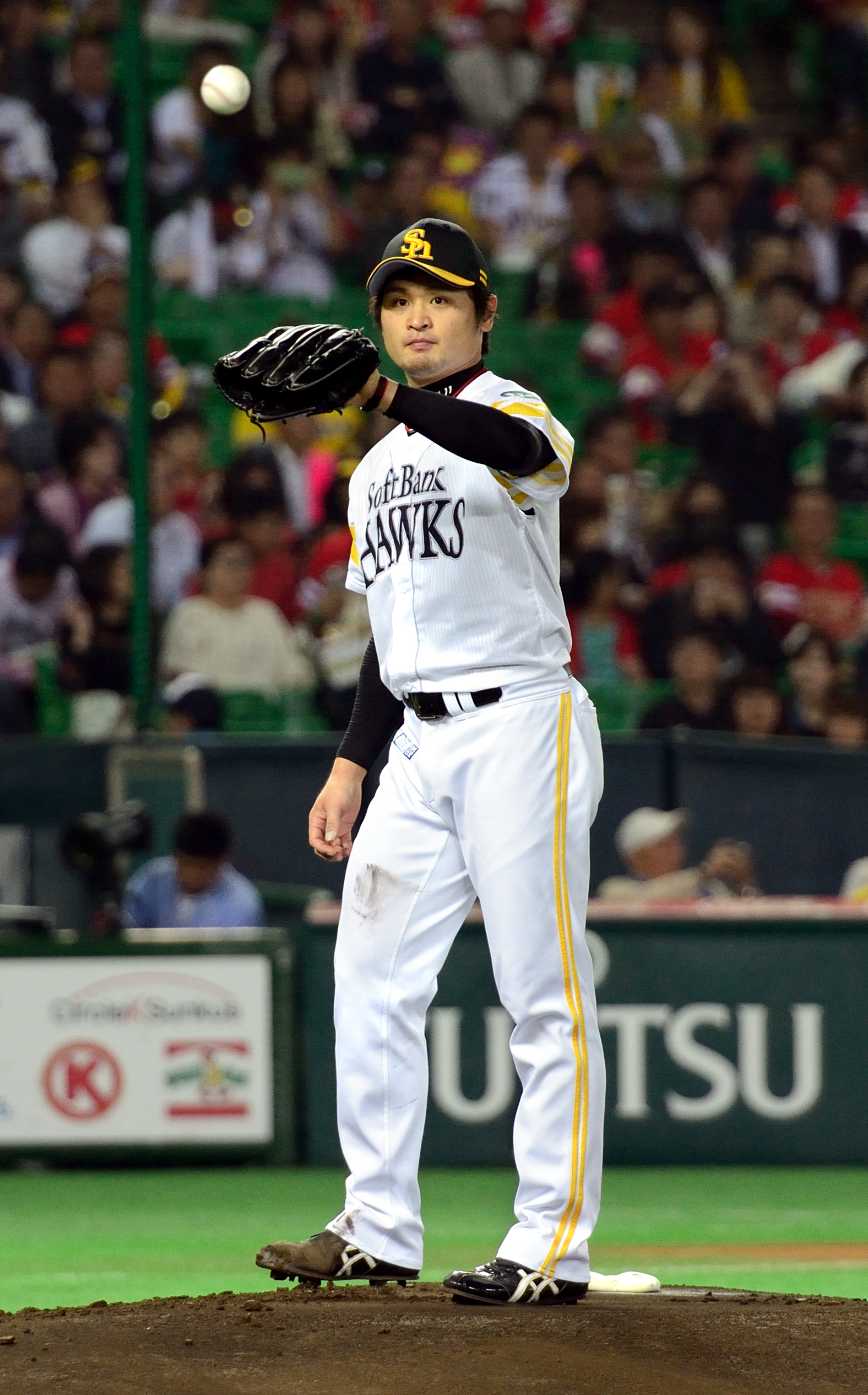 Kenichi Nakata, pitcher of the Fukuoka SoftBank Hawks, at Fukuoka Dome.